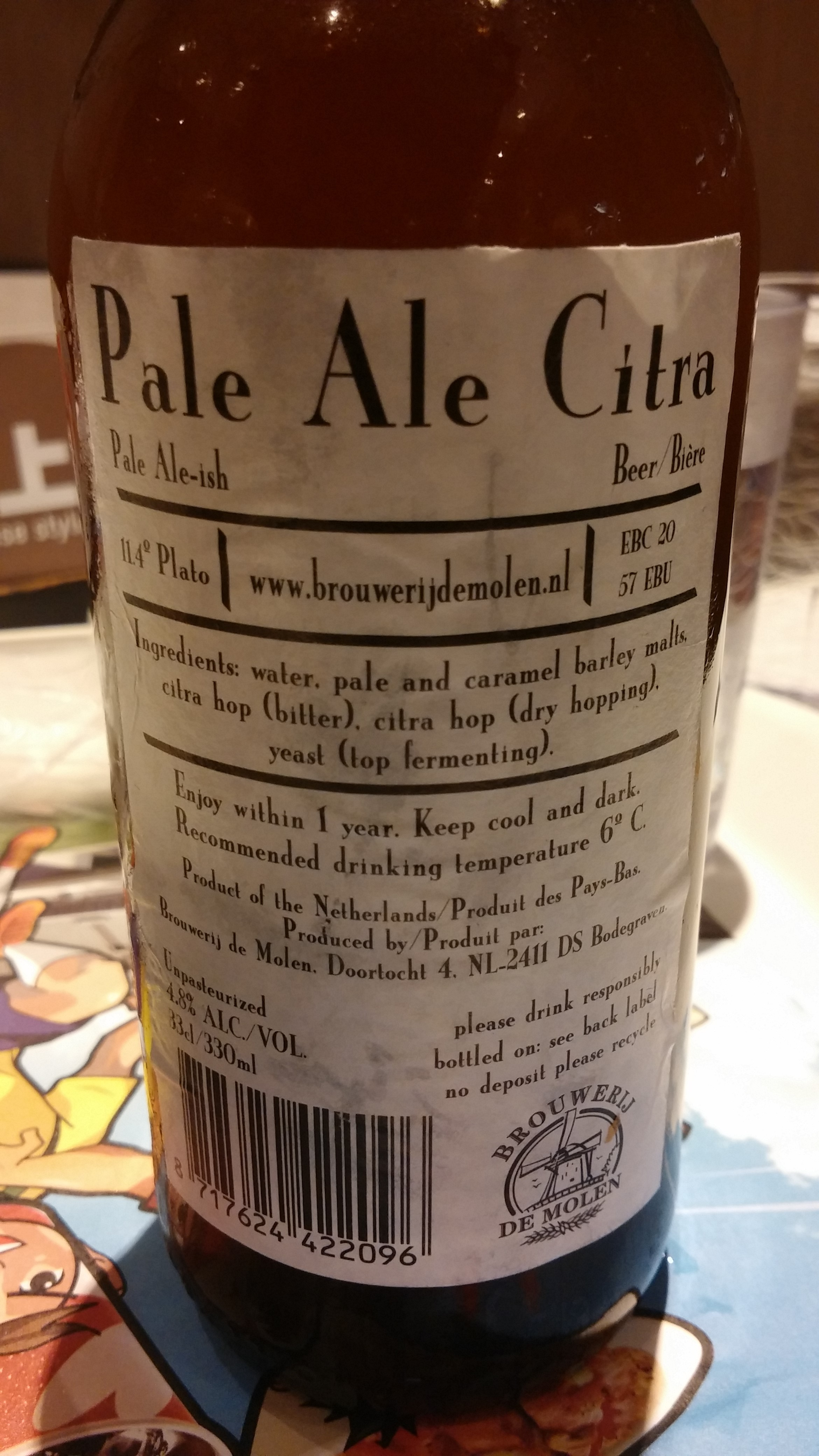 A bottle of De Molen Pale Ale Citra photographed in Mong Kok